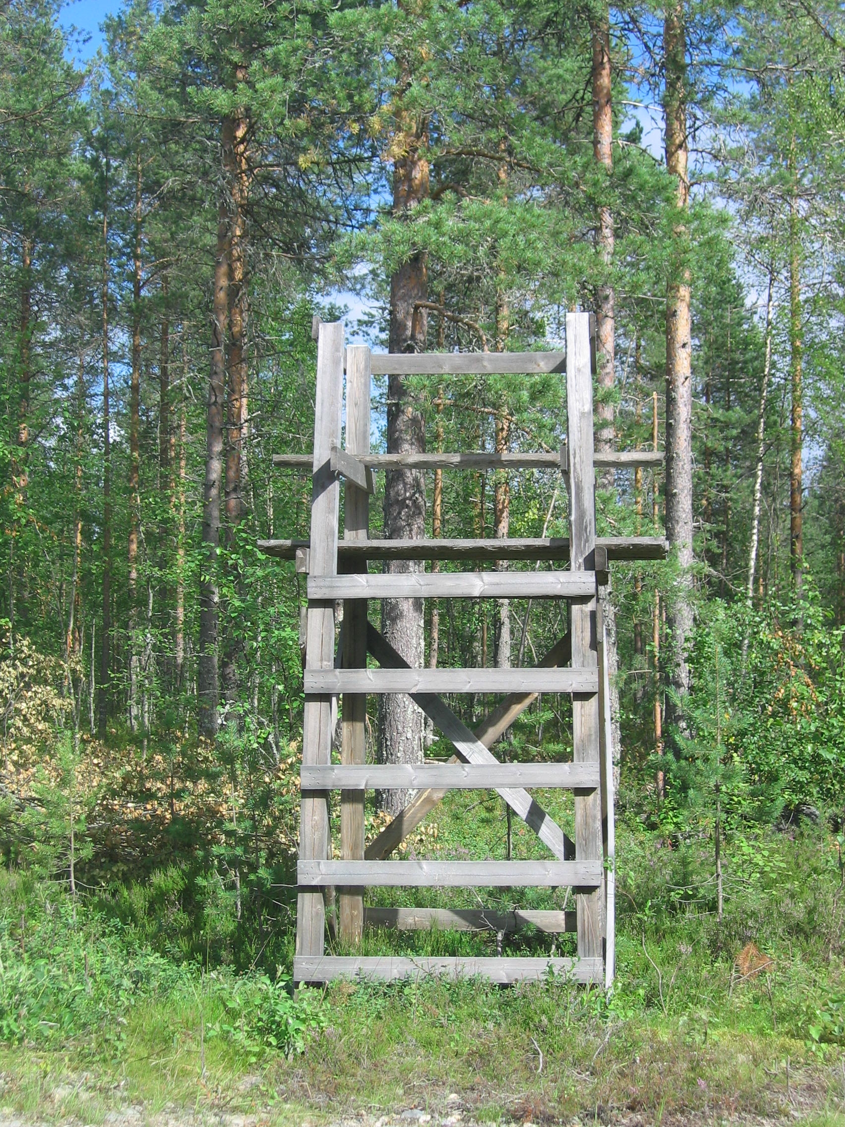 A wooden stand used in elk shooting, located at the Hillatie road in Utajärvi, Finland.